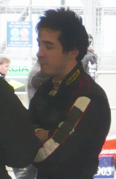 Álvaro Parente in his team garage at Silverstone Circuit for its 2010 SF round.